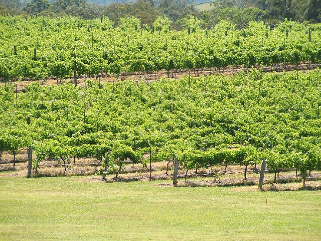 Vineyards in the New South Wales wine region of the Hunter Valley, Australia